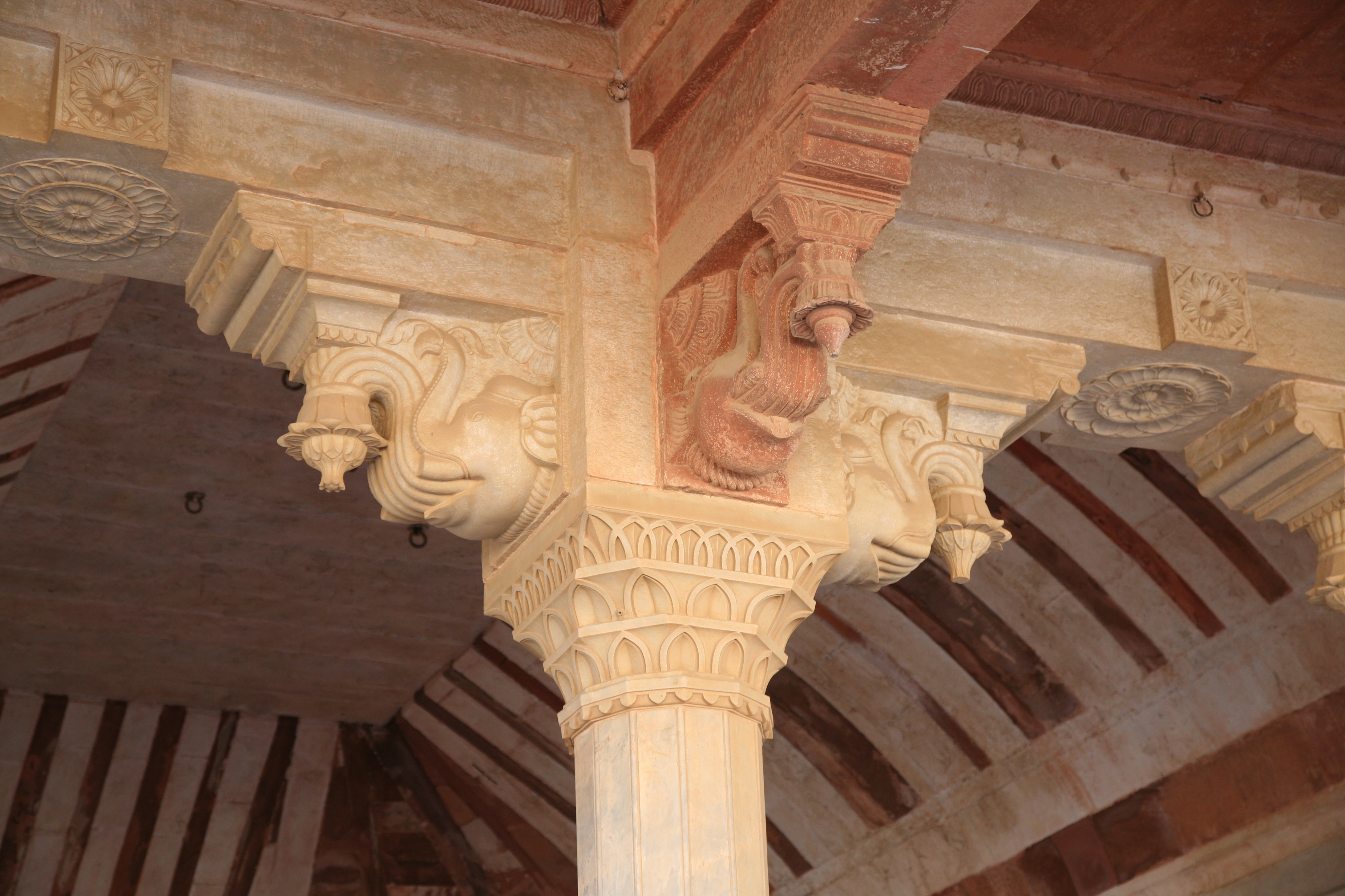 Amber Fort, near Jaipur. The Diwan-i-Aam (public audience hall). Detail